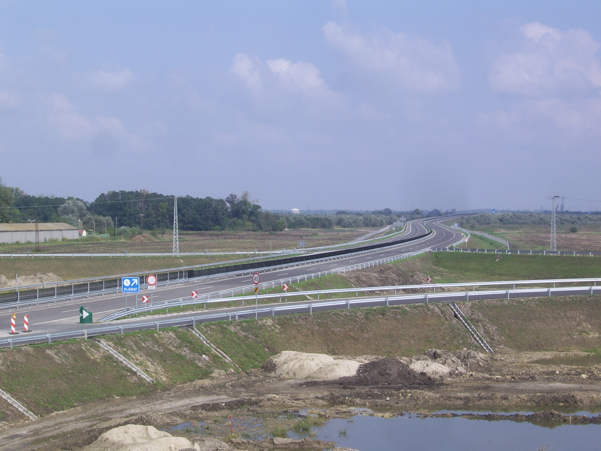 The almost completed section of the M43 motorway in Hungary, near Szeged-Sándorfalva, looking east.